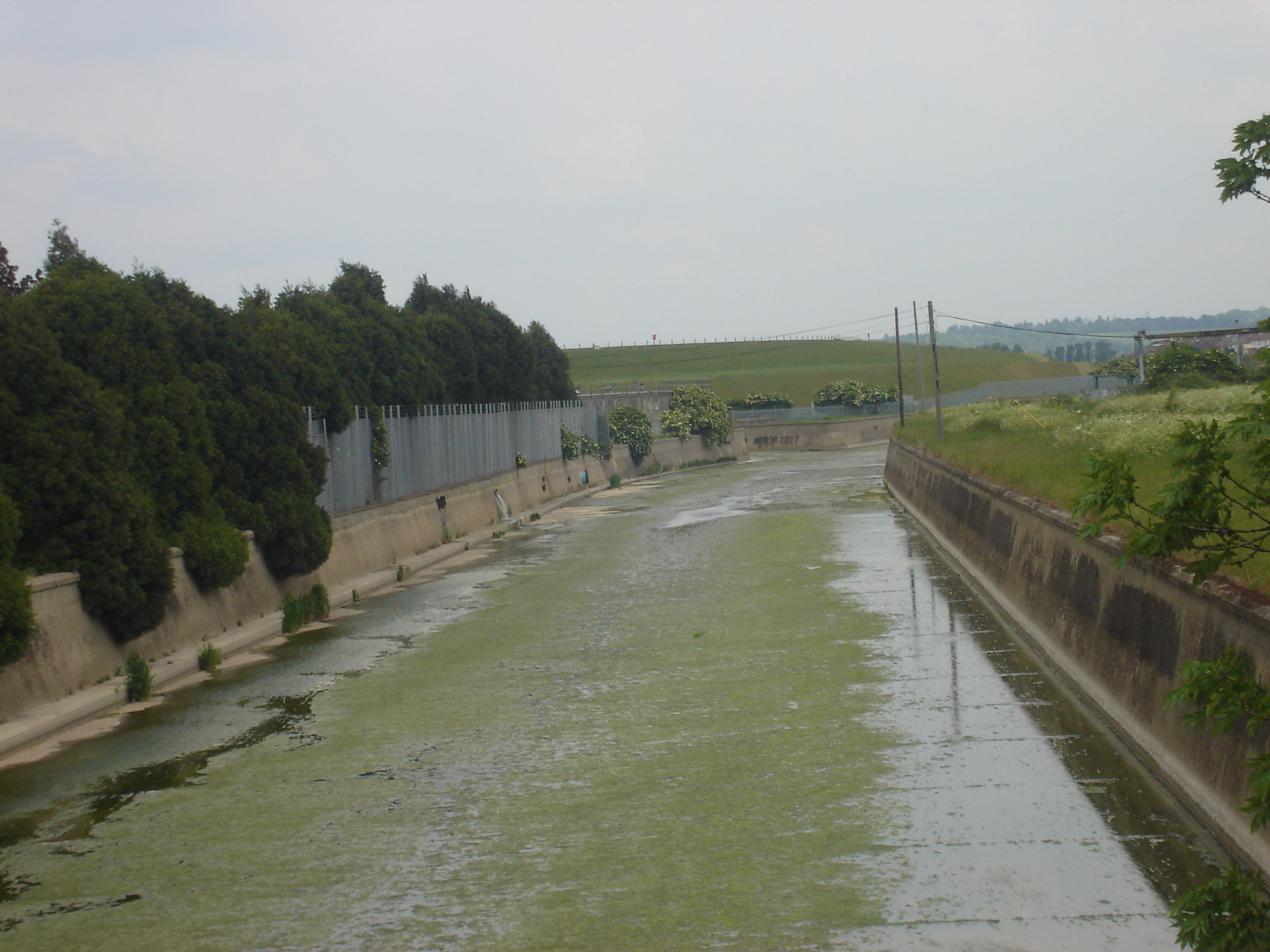 Picture of the River Lee Diversion